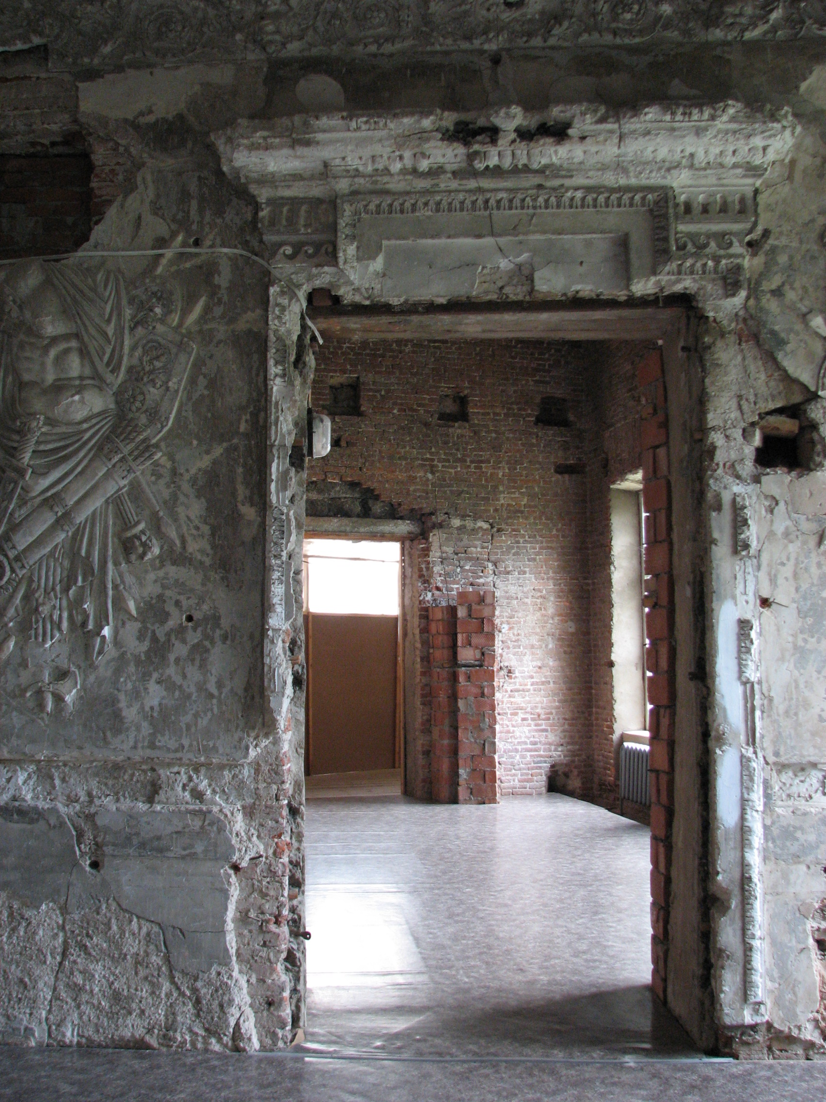 Gatchina Palace, Chesmen gallery